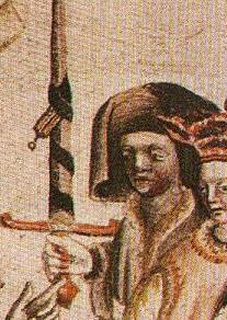 Close-up image of Earl of Fife (Maol Choluim II) in his role in inaugurating King Alexander III of Scotland.